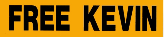 "Free Kevin" bumper sticker created in support of Kevin Mitnick.